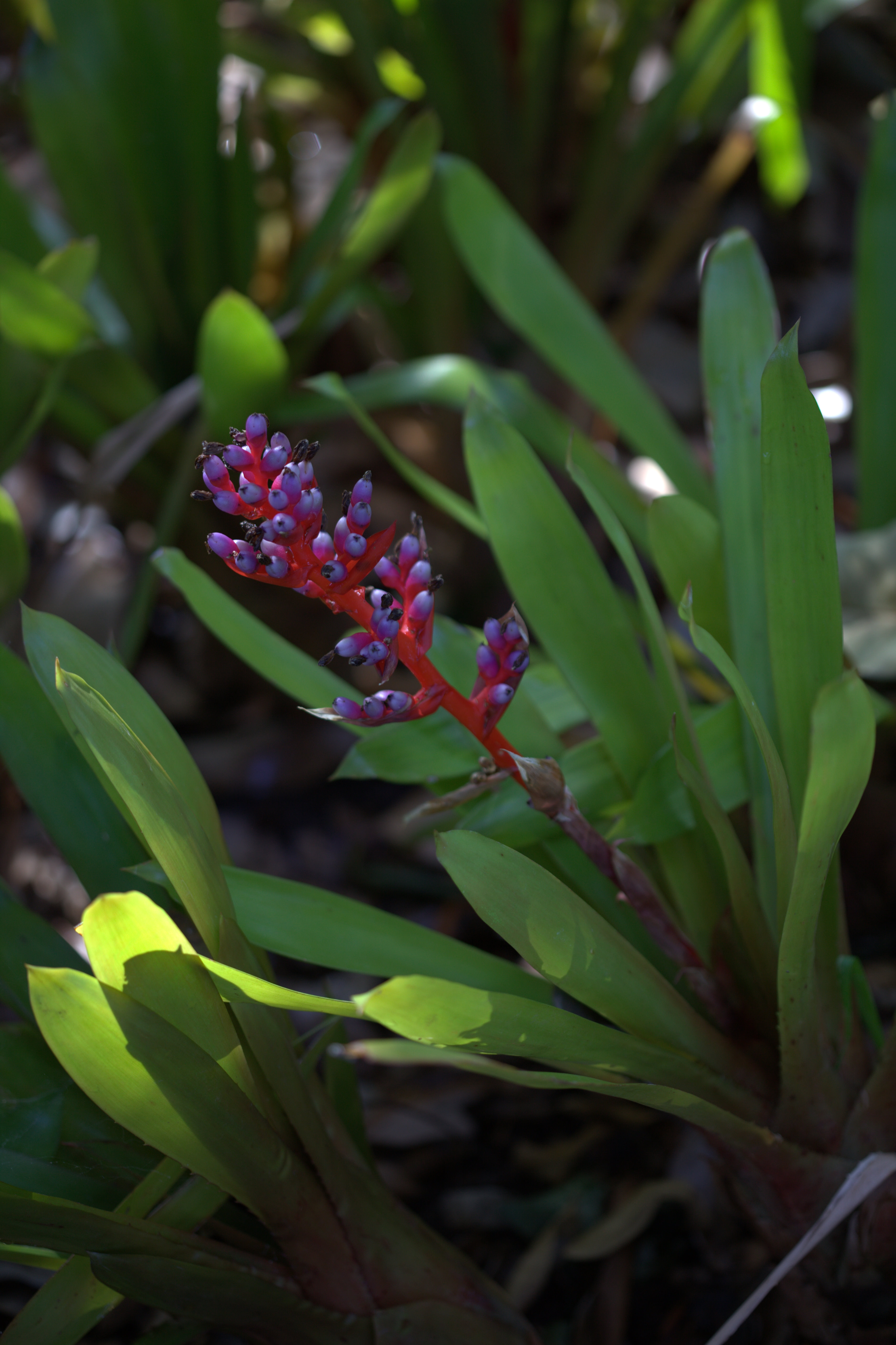 Aechmea weilbachii in Tenerife botanical garden